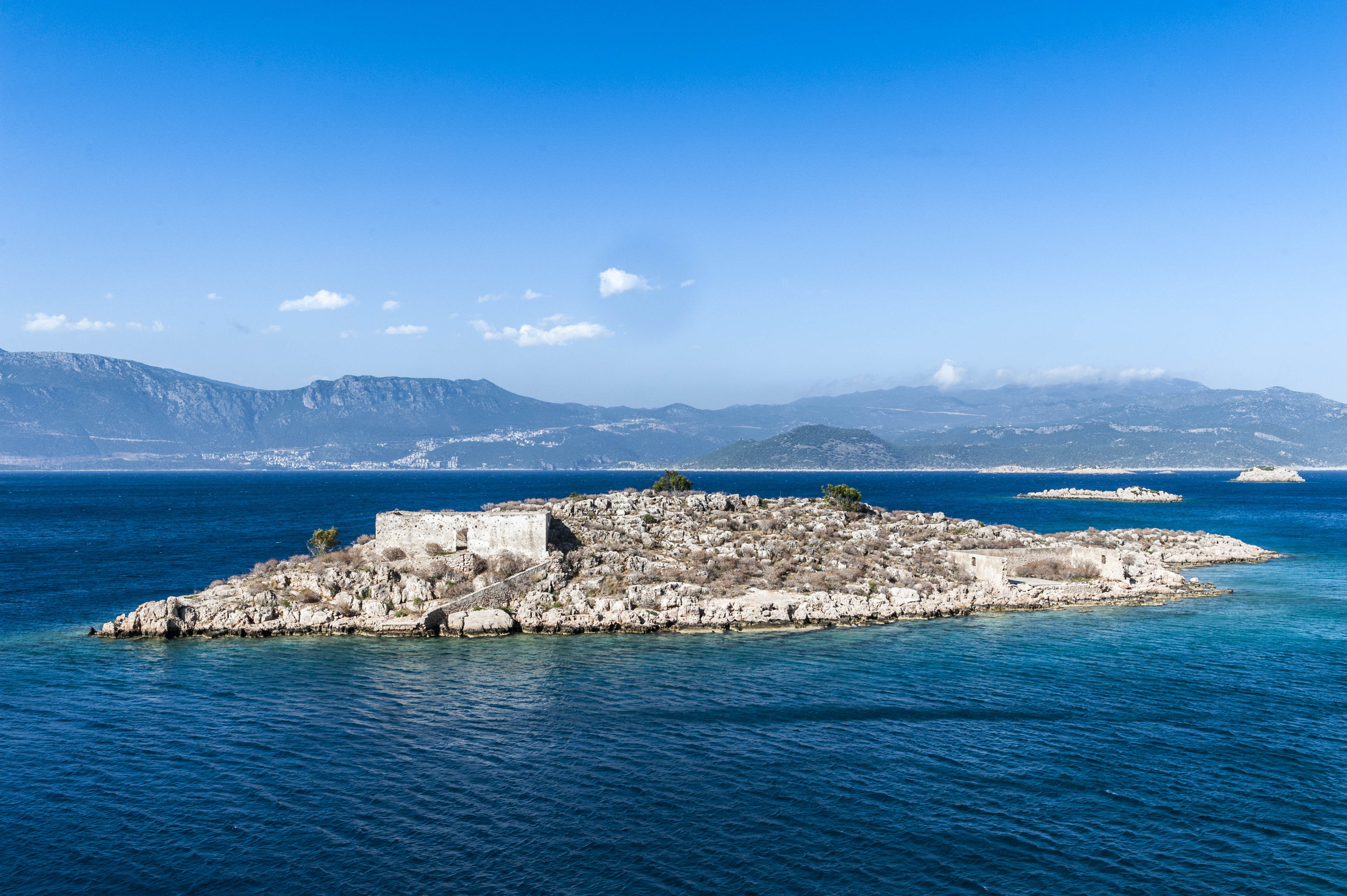 This is a photography of Natura 2000 protected area with ID GR4210004